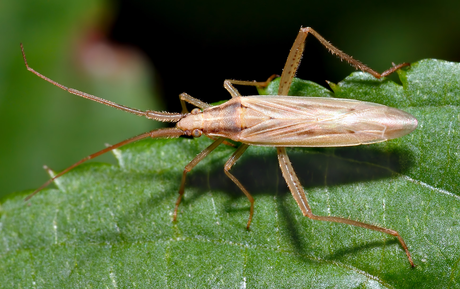 This image shows a Grass Bug (Stenodema laevigata).